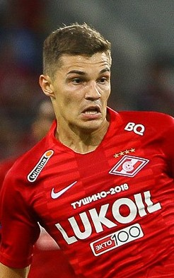 Spartak Moscow VS. PAOK 14 august 2018